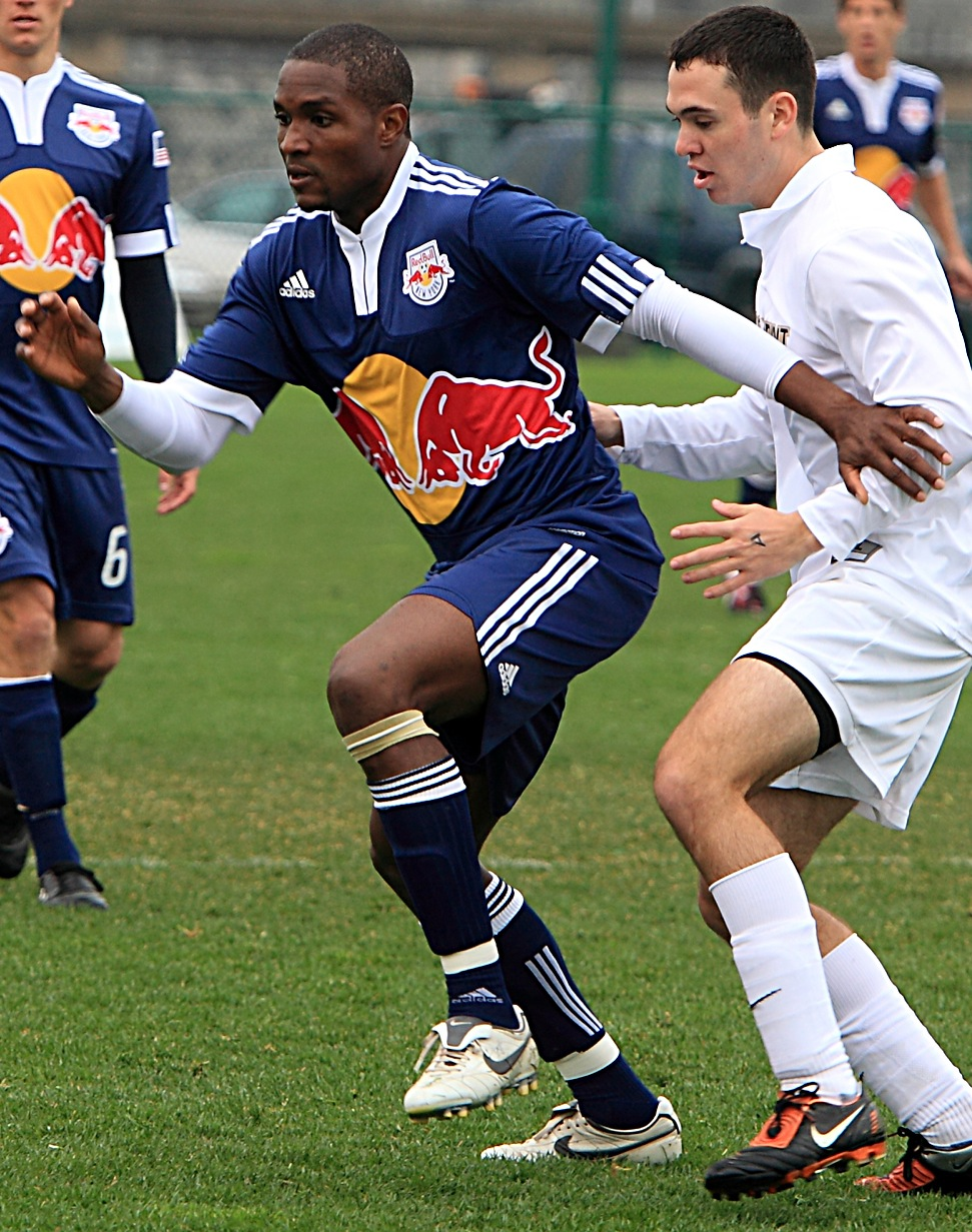 This file has been extracted from another file: Damani Ralph Army vs NY Red Bulls-TWG-021.jpg Damani Ralph, as a trialist with New York Red Bulls in March 2010.